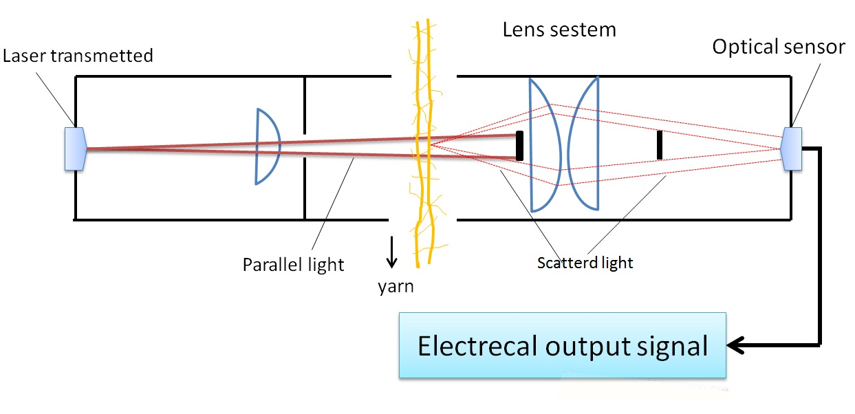 principle of measurement Hairiness for yarn